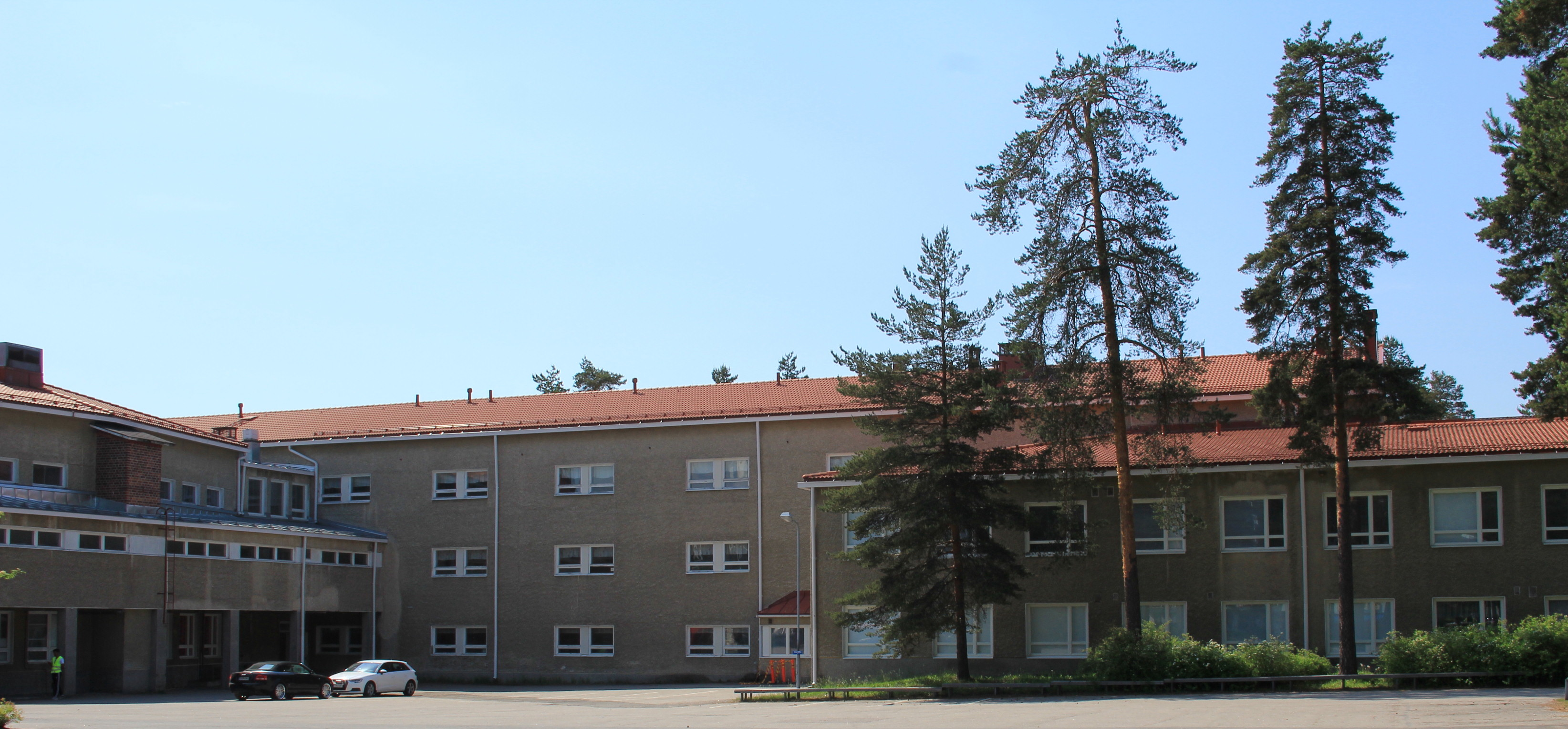 Asema school, Hyvinkää, Finland.